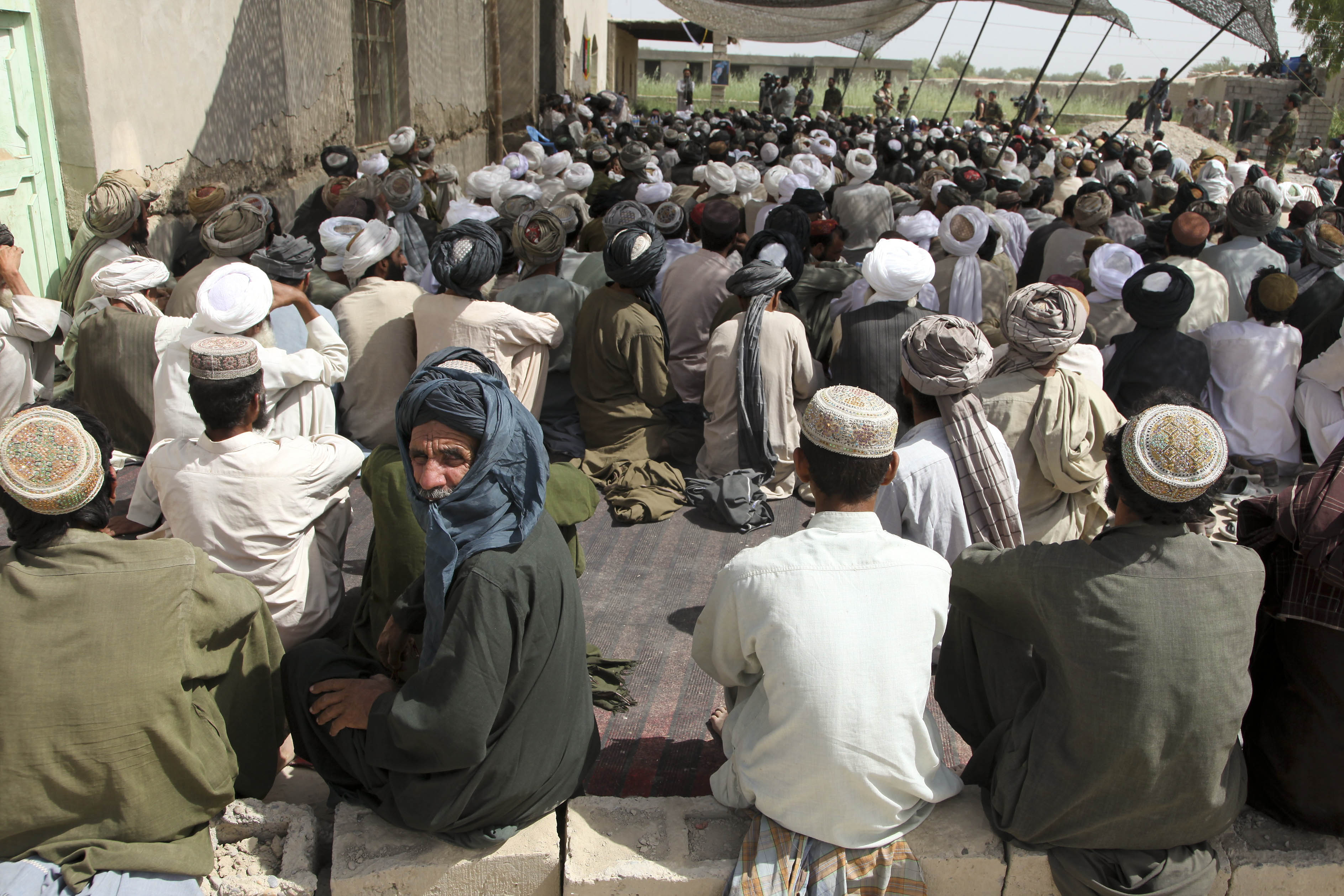 Local Afghan men attend a shura in the Nawa District, Helmand Province, Afghanistan, July 23. The shura was held by provincial governor Gulab Mangal with hopes of re-establishing the Afghan government in the Nawa District. Marines with 1st Battalion, 5th Marine Regiment, Regimental Combat Team 3, 2nd Marine Expeditionary Brigade - Afghanistan, are deployed in support of NATO's International Security Assistance Force and will participate in counterinsurgency operations and training and mentoring the Afghan National Security Forces to improve security and stability in Afghanistan.